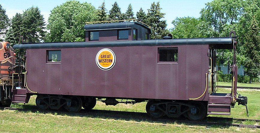 Chicago Great Western caboose at the National Railroad Museum in Green Bay, Wisconsin.